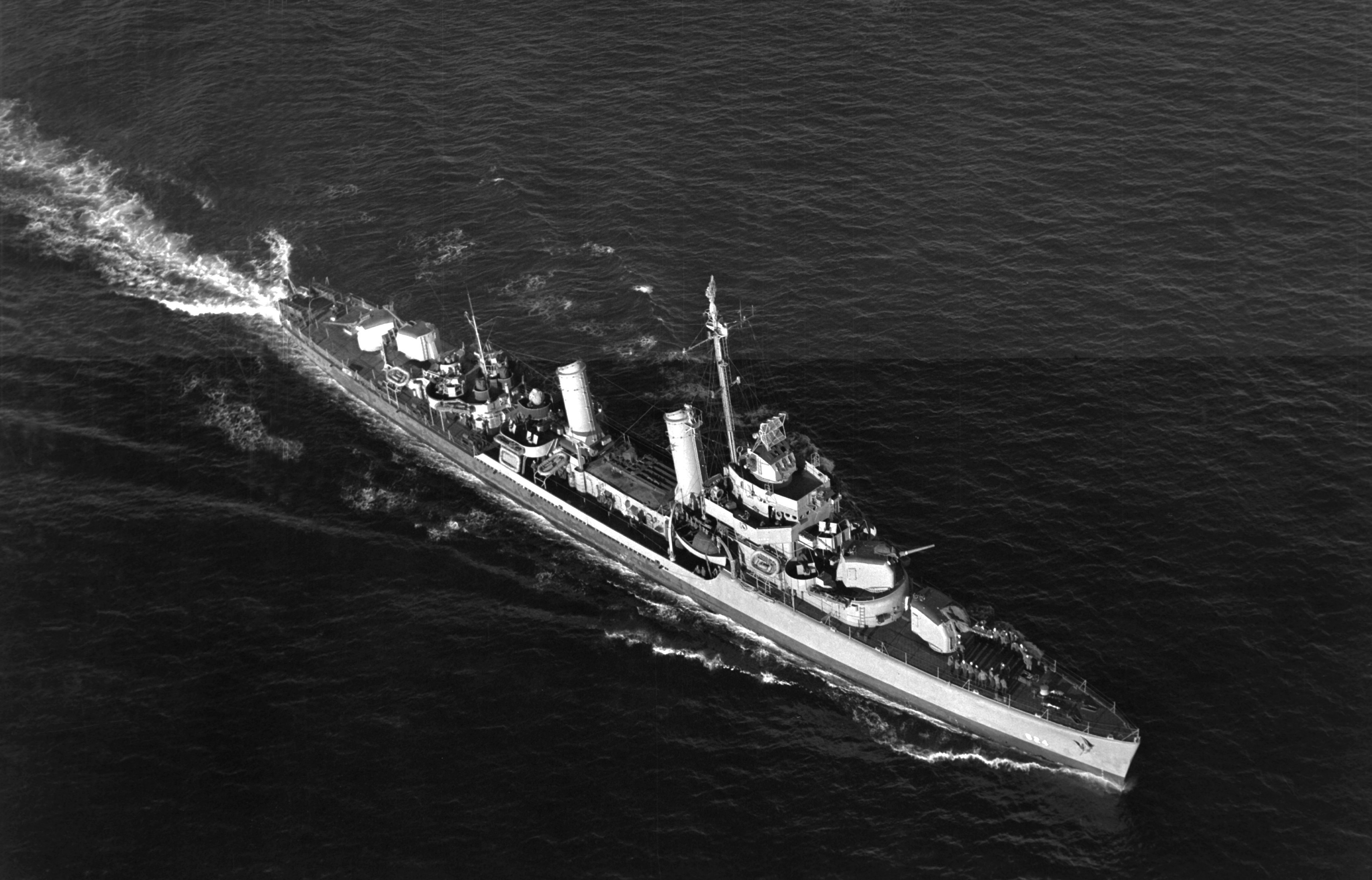 The U.S. Navy destroyer USS Baldwin (DD-624) underway at sea on 12 March 1944.